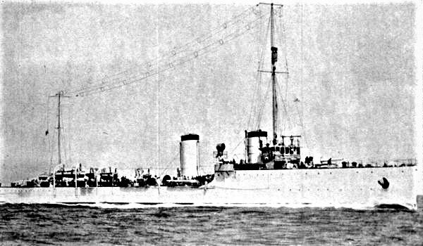 The destroyer Carlo Mirabello in navigation.